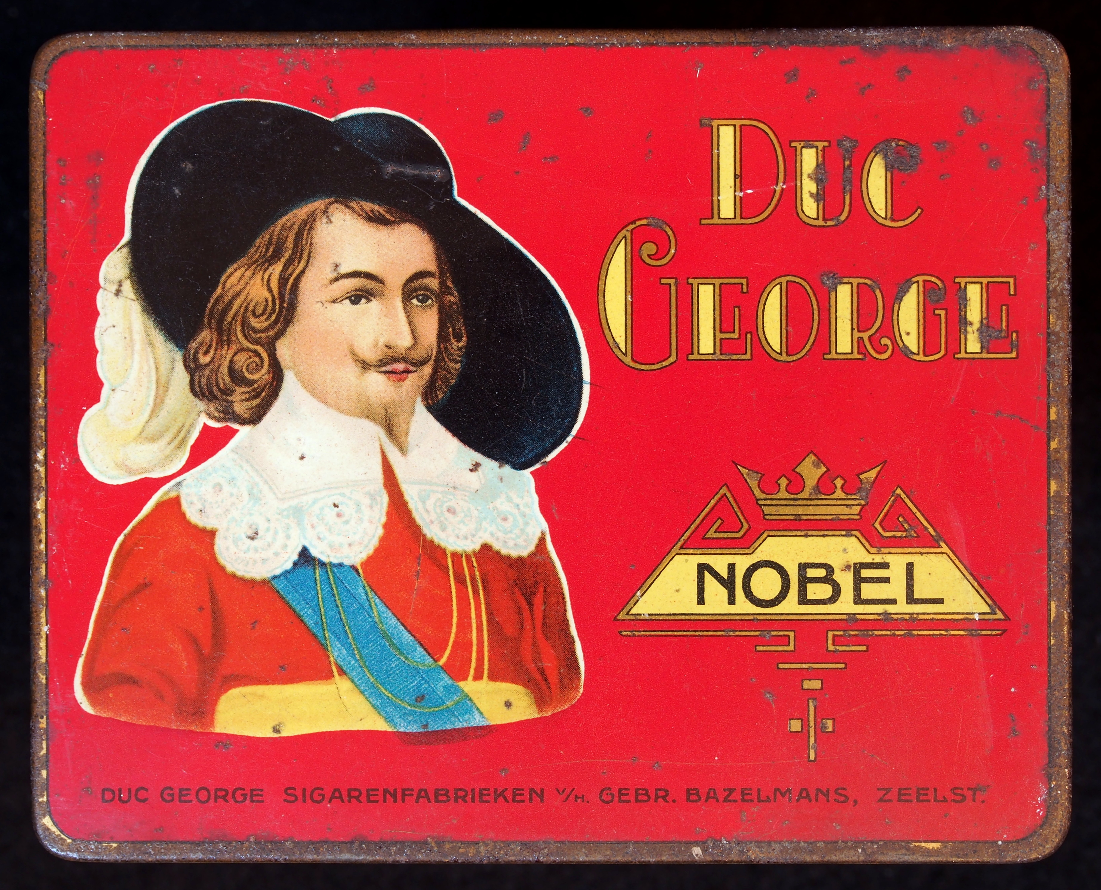 Very old product that is not produced and not sold any more. Note that some tins may look the same, but when looked for carefully there are some slight differences! For more info see tincollectors.nl or